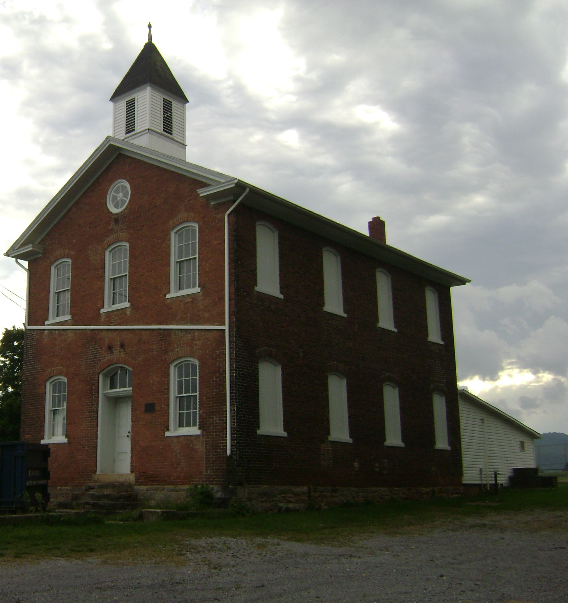 The New Enterprise Public School, sitting atop a hill in New Enterprise, PA. This historic 1881 school house sits across the road from the 1928 Replogle school building. This photo shows that a number of the large windows have been boarded over.